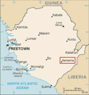 CIA Factbook map of Sierra Leone modified to identify Kenema.